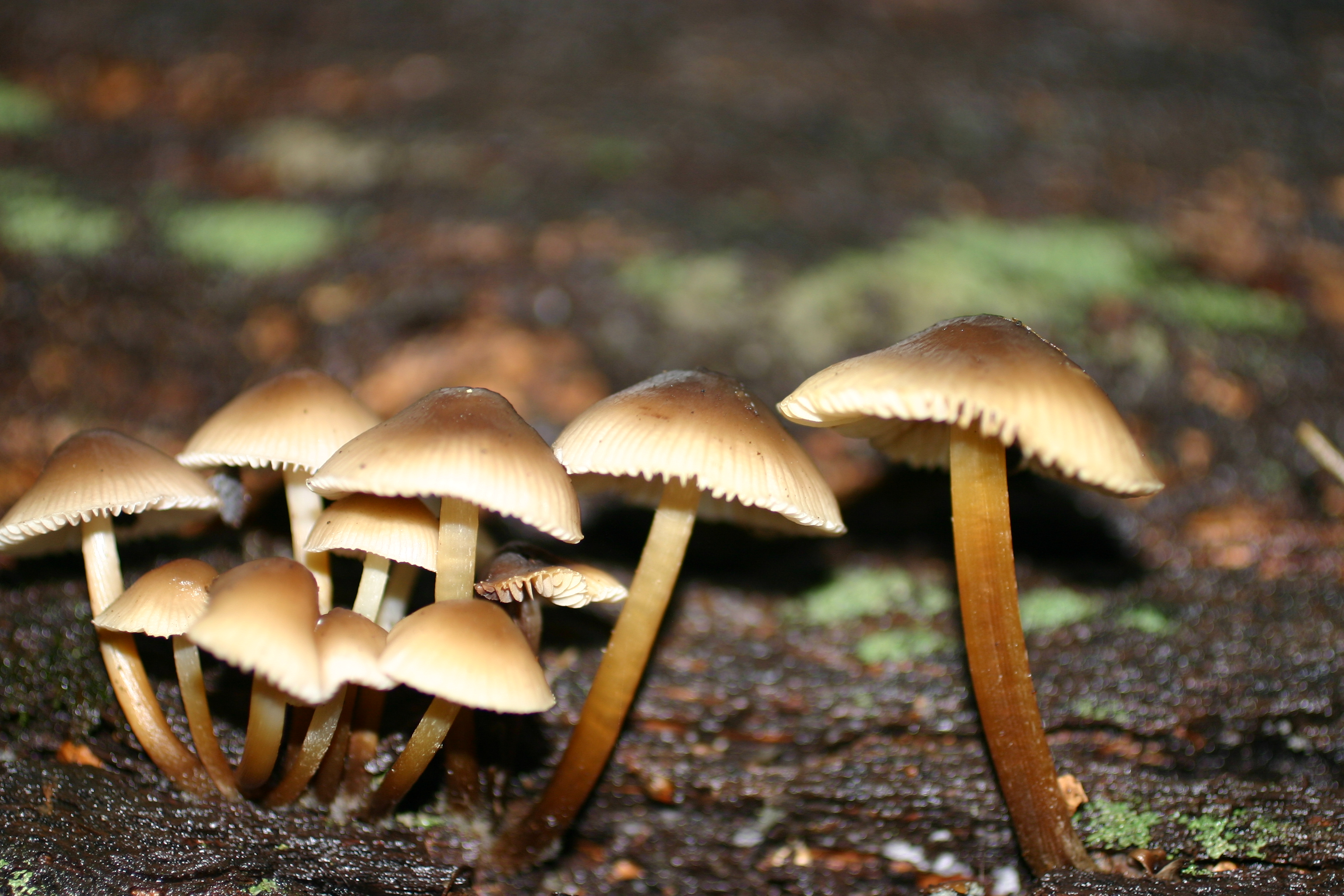 Fruit bodies of the fungus Mycena inclinata (Fr.) Quél. Specimens photographed in Beaver Co., Pennsylvania, USA.